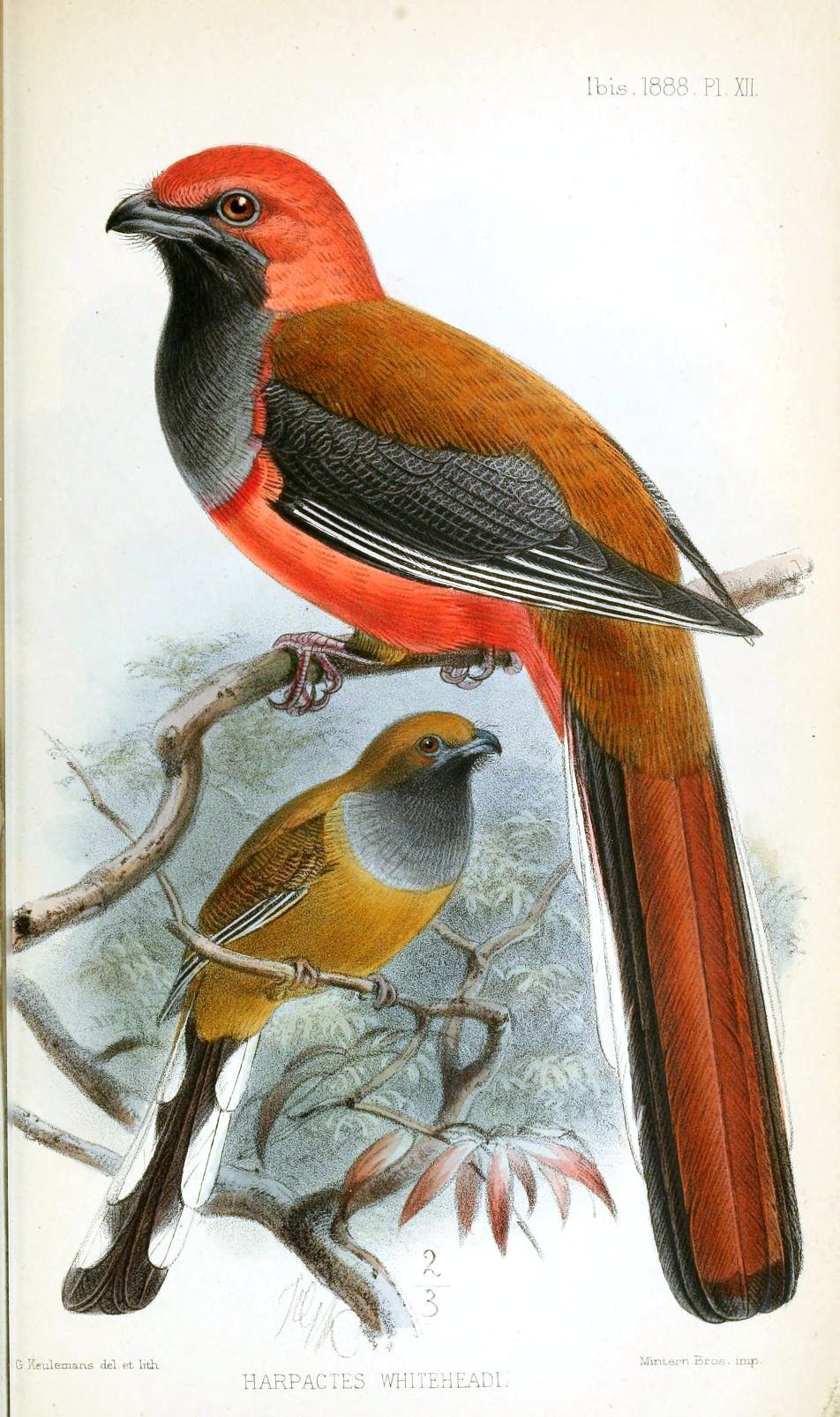 Harpactes whiteheadi